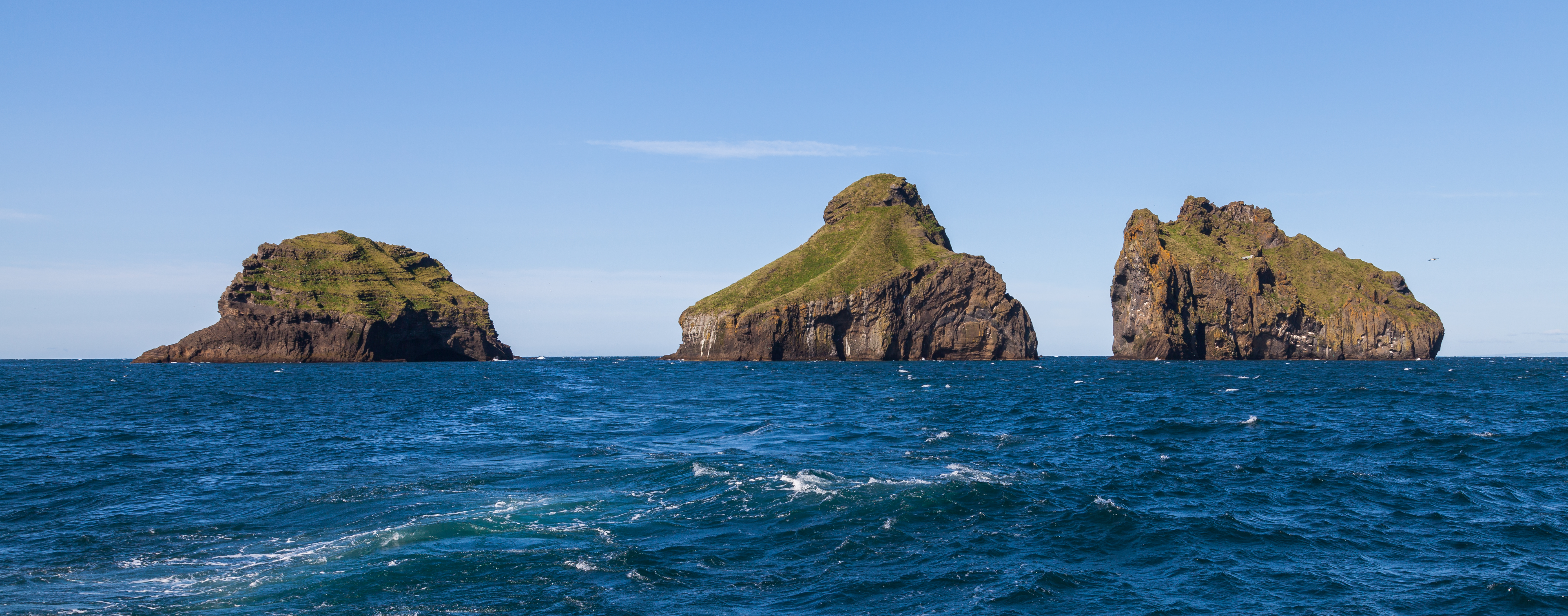 Smáeyjar islands, Westman Islands, Suðurland, Iceland